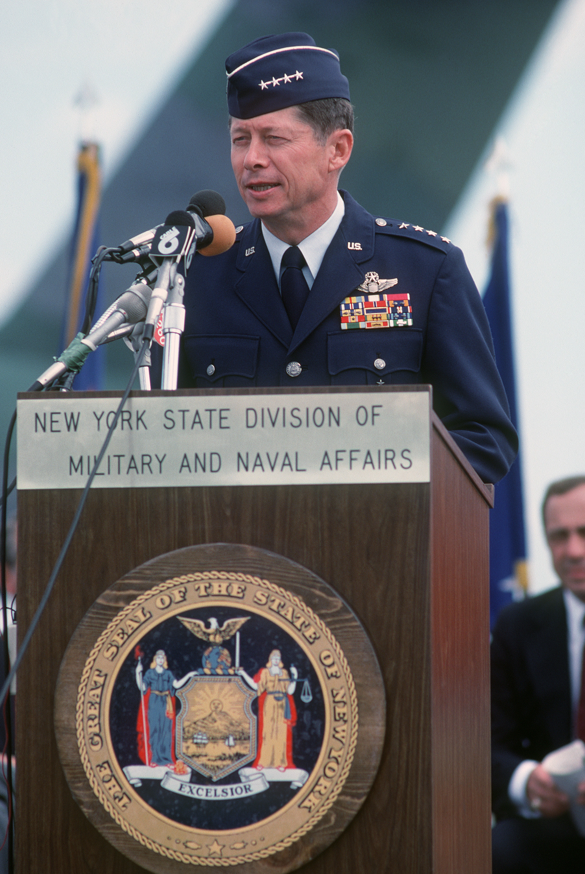 General Thomas M. Ryan Jr. Military Airlift Command (MAC) commander, speaks at a ceremony marking the transfer of the first C-5A Galaxy aircraft to be transferred to the 105th Military Airlift Group, New York Air National Guard, at Stewart Air National Guard Base.